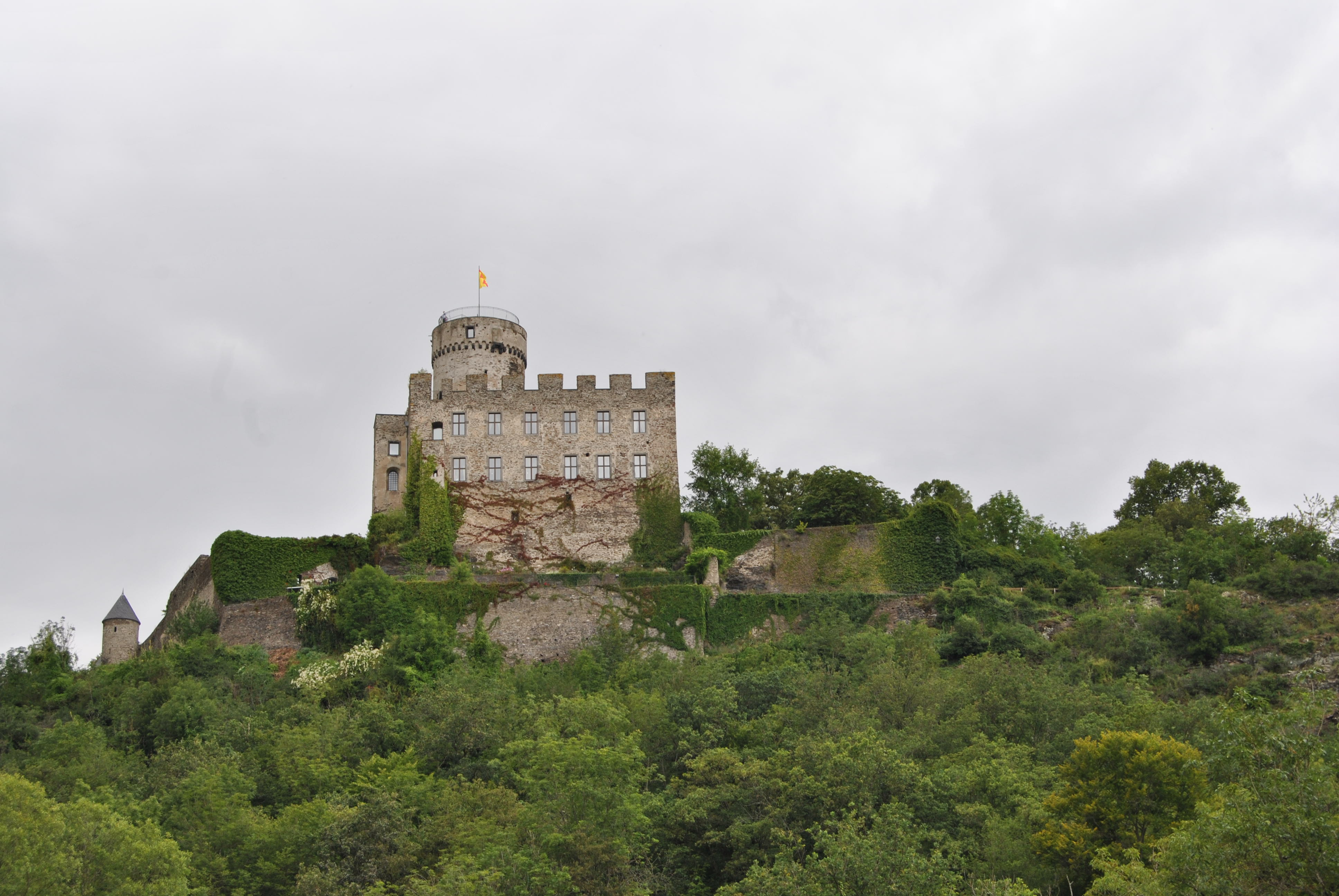 This photograph was taken with a Nikon D3000 This is a photograph of an architectural monument. Roes, Burg Pyrmont